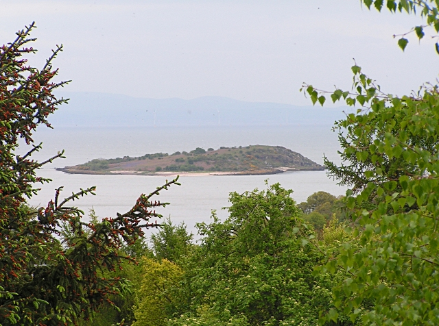 Rough Island from Tornat Wood A nature reserve under the management of the National Trust for Scotland